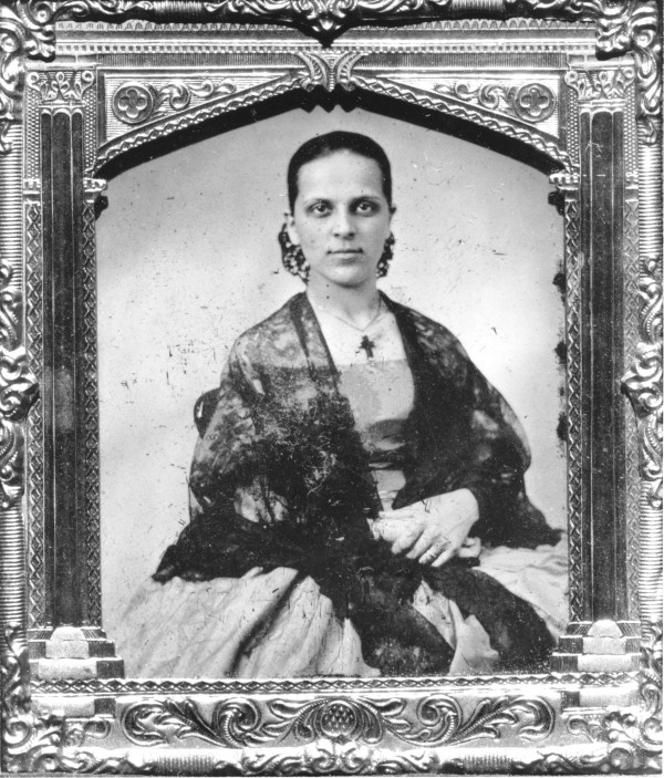 Portrait of a Californio woman during the Gold Rush